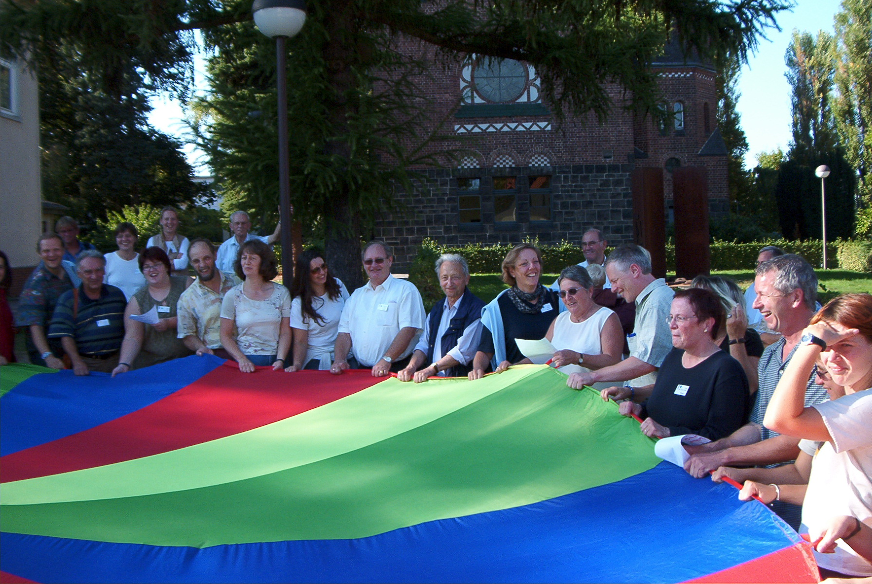 Parachute Playing in Hephata, Schwalmstadt, Hessen